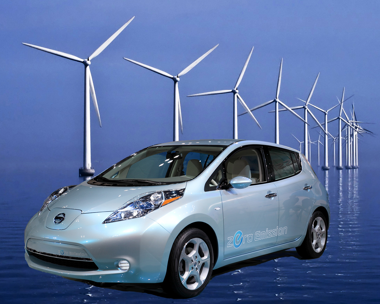 Superimposed image of a Nissan Leaf electric vehicle with a wind farm in the background (for use as image template for the Green car task force at English Wikipedia here)